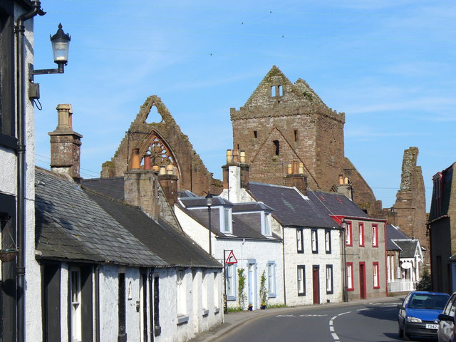 Village Street, New Abbey Whitewashed stone cottages with the ruined Sweetheart Abbey towering over them.